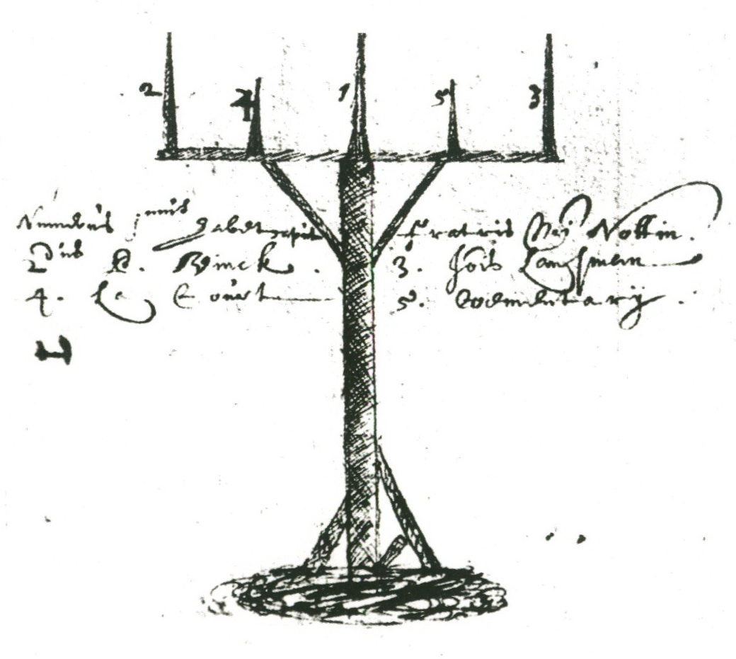 Drawing of the instrument that was used in 1638 to display the heads of the 5 main culprits of the so-called Maastricht Treason on the city walls.